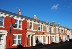 Terraced houses in the Gateshead neighbourhood of Bensham